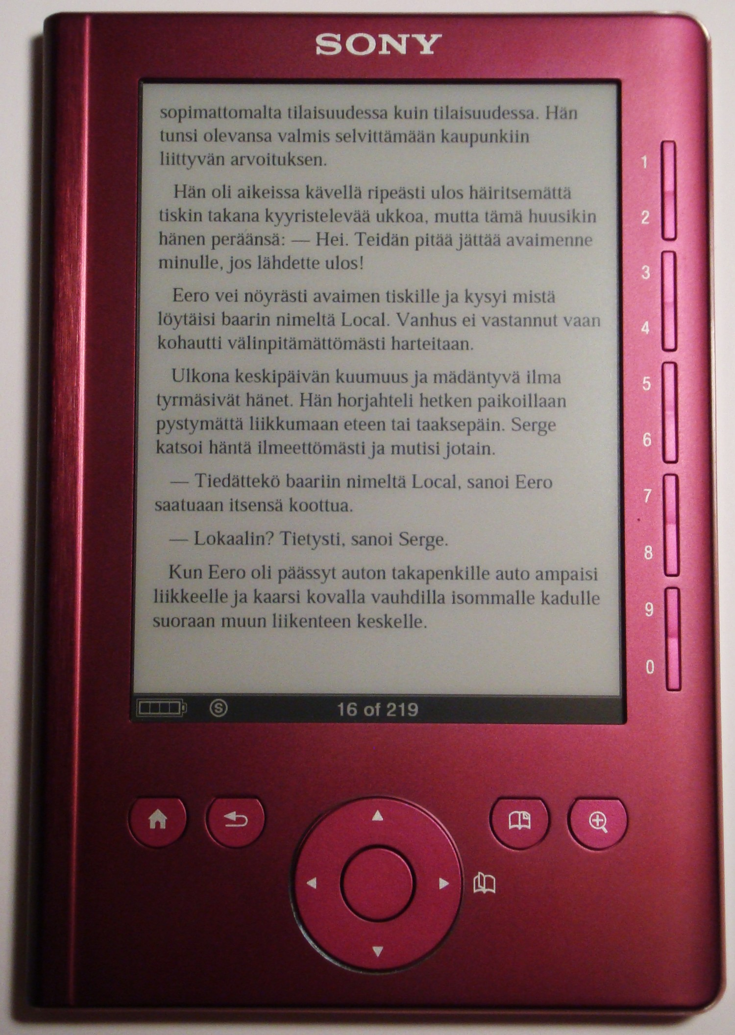 Sony Book Reader PRS-300 Pocket Edition. In a screen there is a page from a book Lueminut by Kimmo Lehtonen.